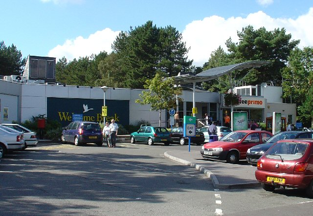 Fleet Services, SW bound M3, Hampshire A motorway services run by "Welcome Break". All the usual facilities (Restaurants, Toilets, Shop etc) in the main building (shown in the picture). The petrol station is on the other side (W) of the building. Connected to an equivalent service area on the NE bound carriageway by a pedestrian footbridge over the motorway.